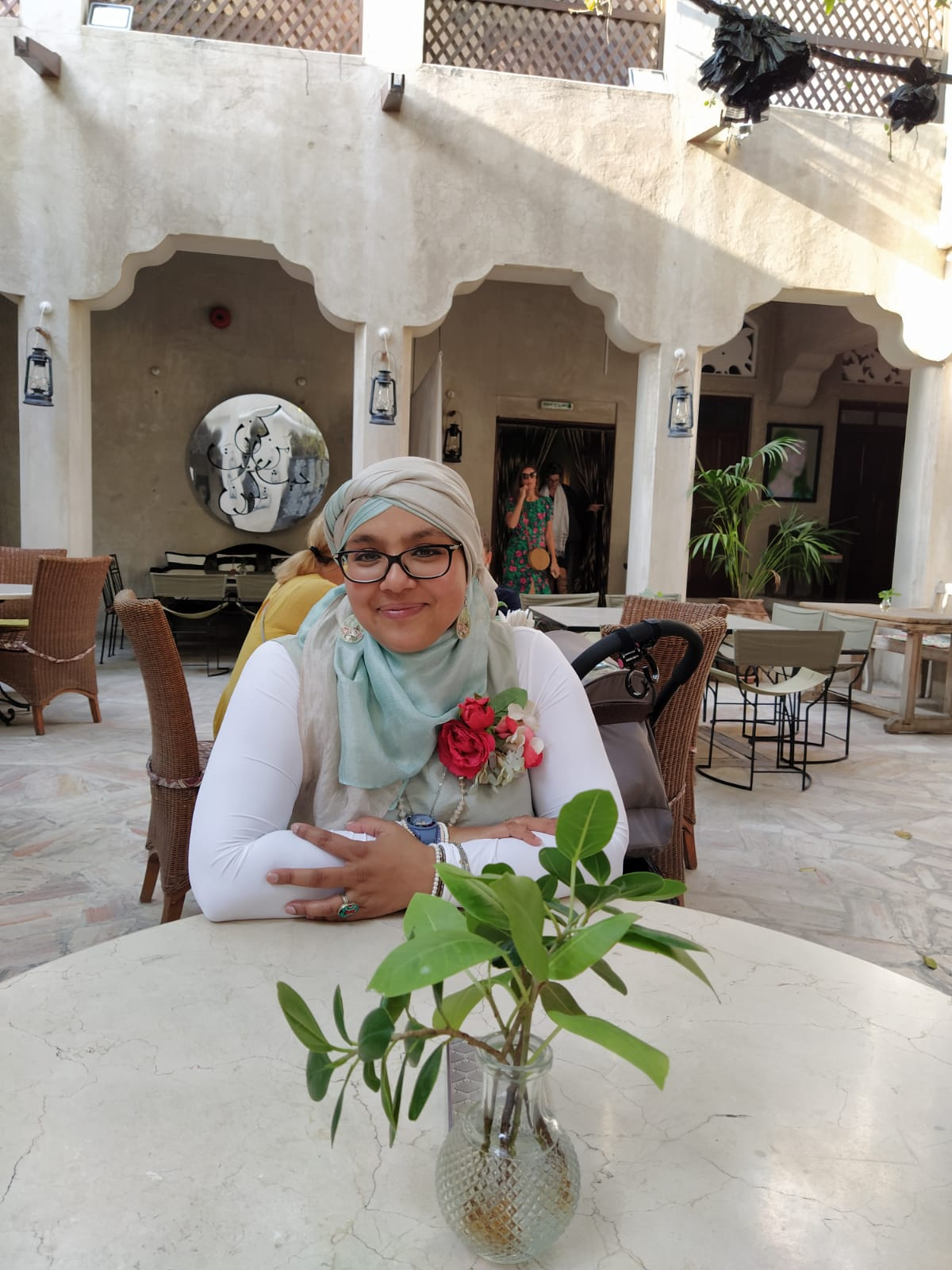 Author Onjali Q Raúf in Dubai as part of the 2020 Emirates Airline Festival of Literature